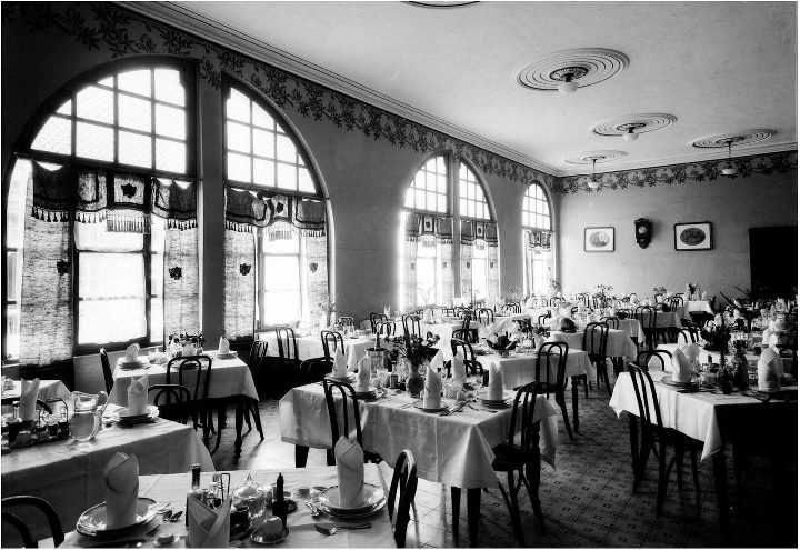 Inside of the rich Europa's Hotel, who was localized in Medellín